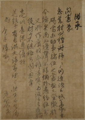 Letter of Yi Won-ik, prime minister of Joseon Dynastys